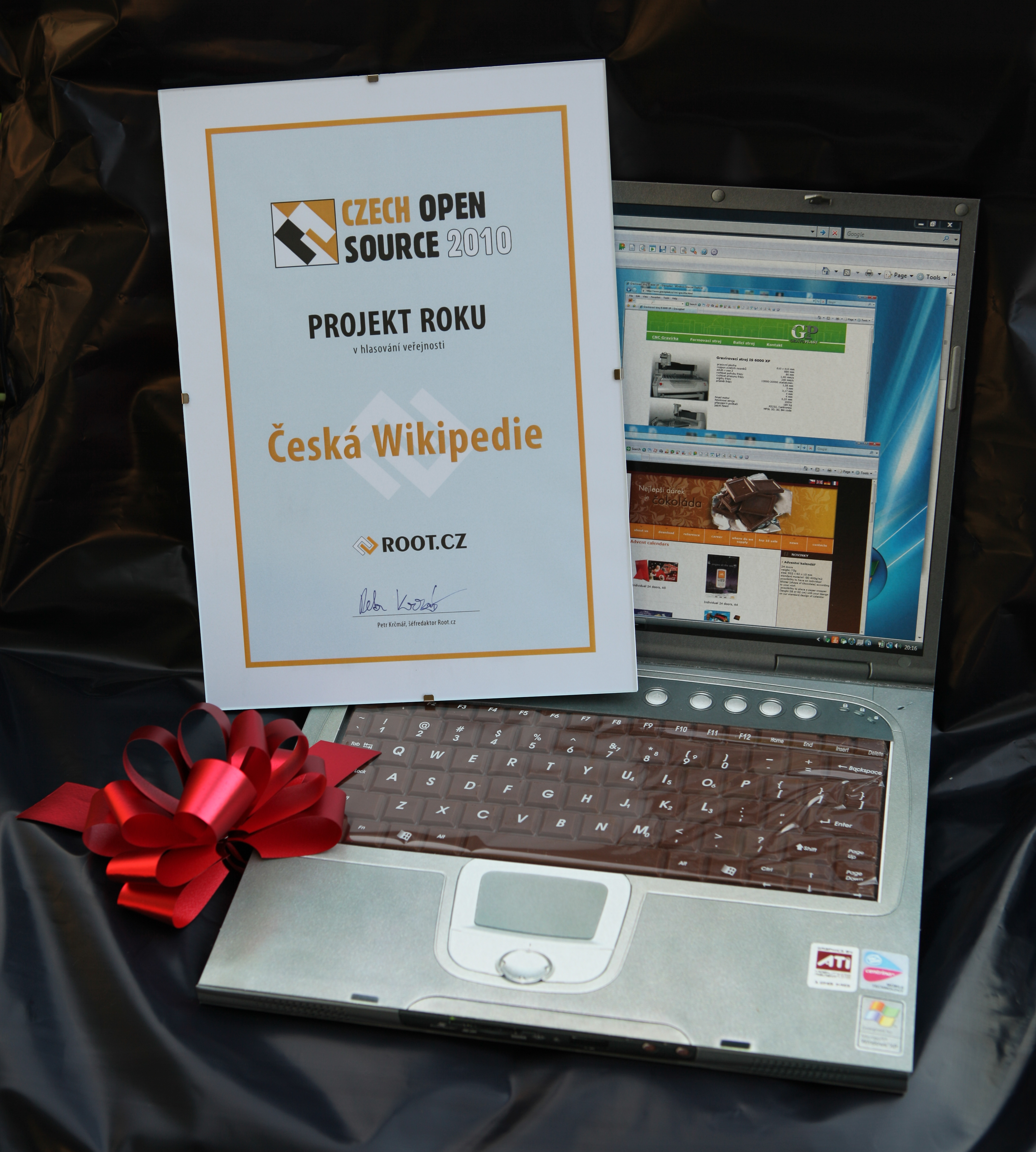 Plaque Czech Wikipedia got as Czech Open Source Project of the Year 2010